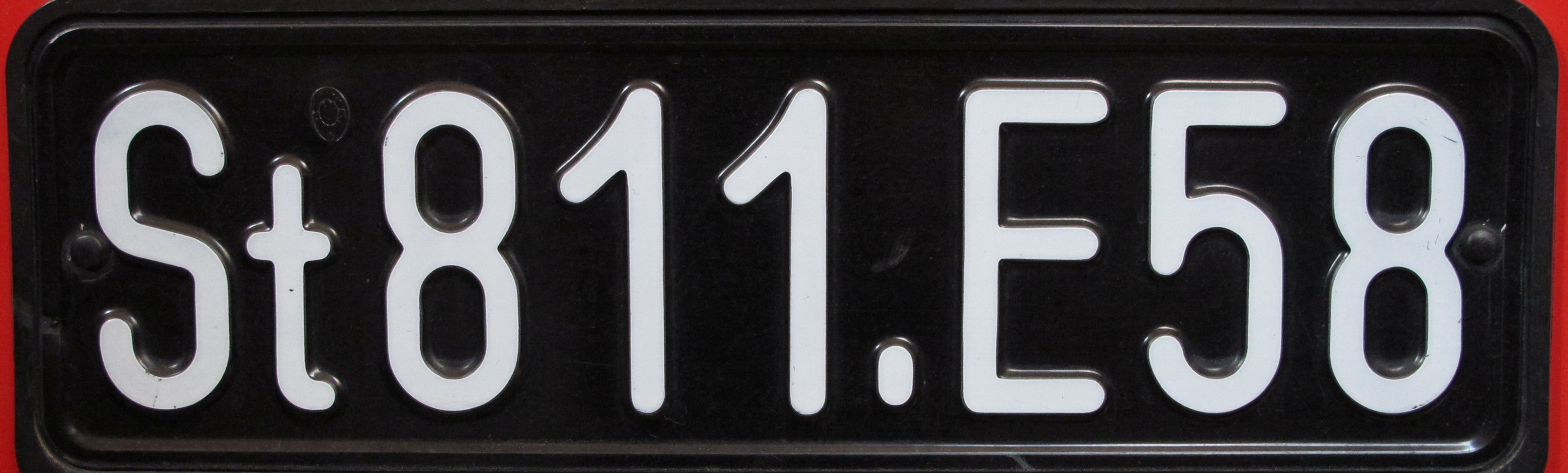 License Plates Steiermark Fürstenfeld